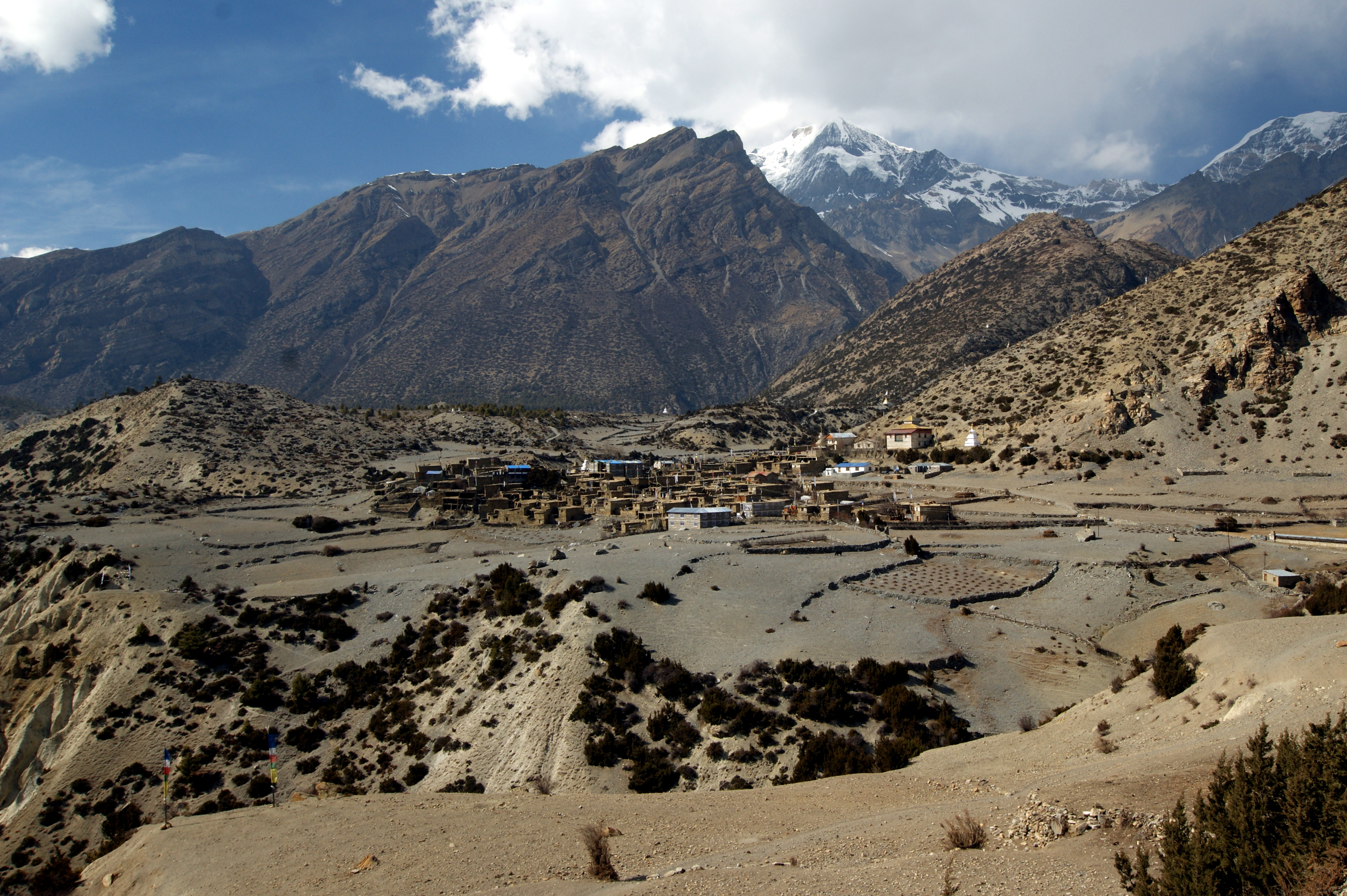 Village of Ngawal as seen from the eastern entry